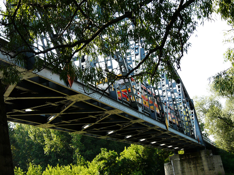 Halászlak - Railway bridge